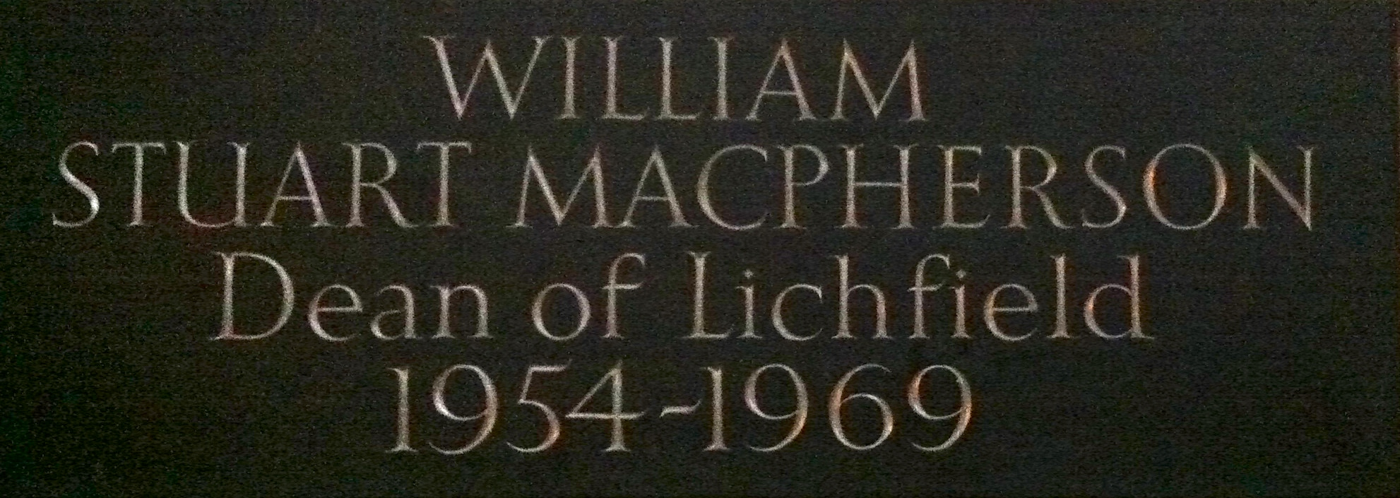 Dean of Lichfield 1954-1969